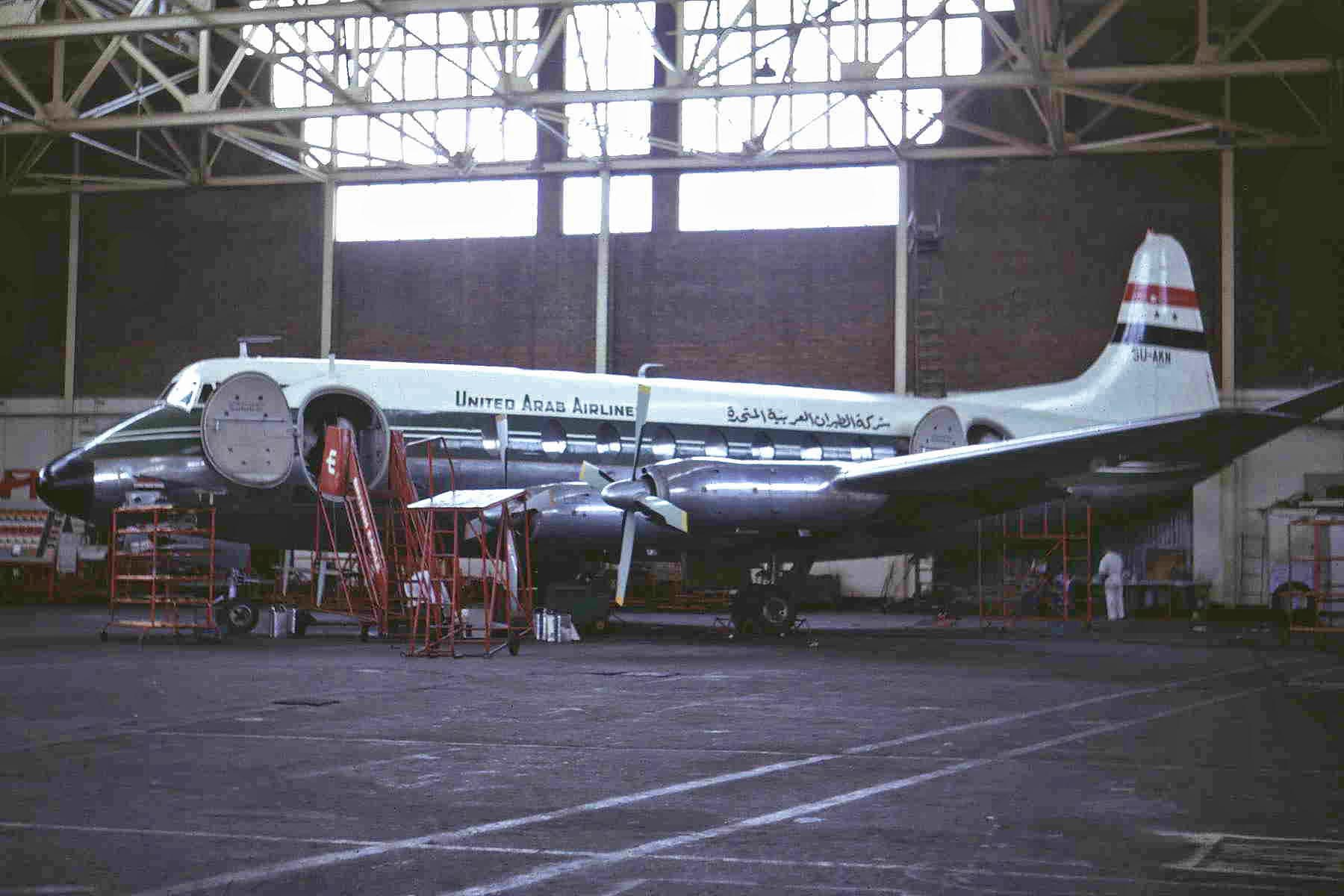 British Eagle bought 4 Viscounts from Uniter Arab which had been sitting in the desert since the Suez war. This one, SU-AKN became G-ATFN. The others being G-ANRS, G-ATDR & G-ATDU. They were full of particularly nasty creepy-crawlies and on one ferry flight from Cairo the F/O was bitten by a spider and they had to divert to Paris. On arrival they had to be fumigated (the aircraft, not the crew!).